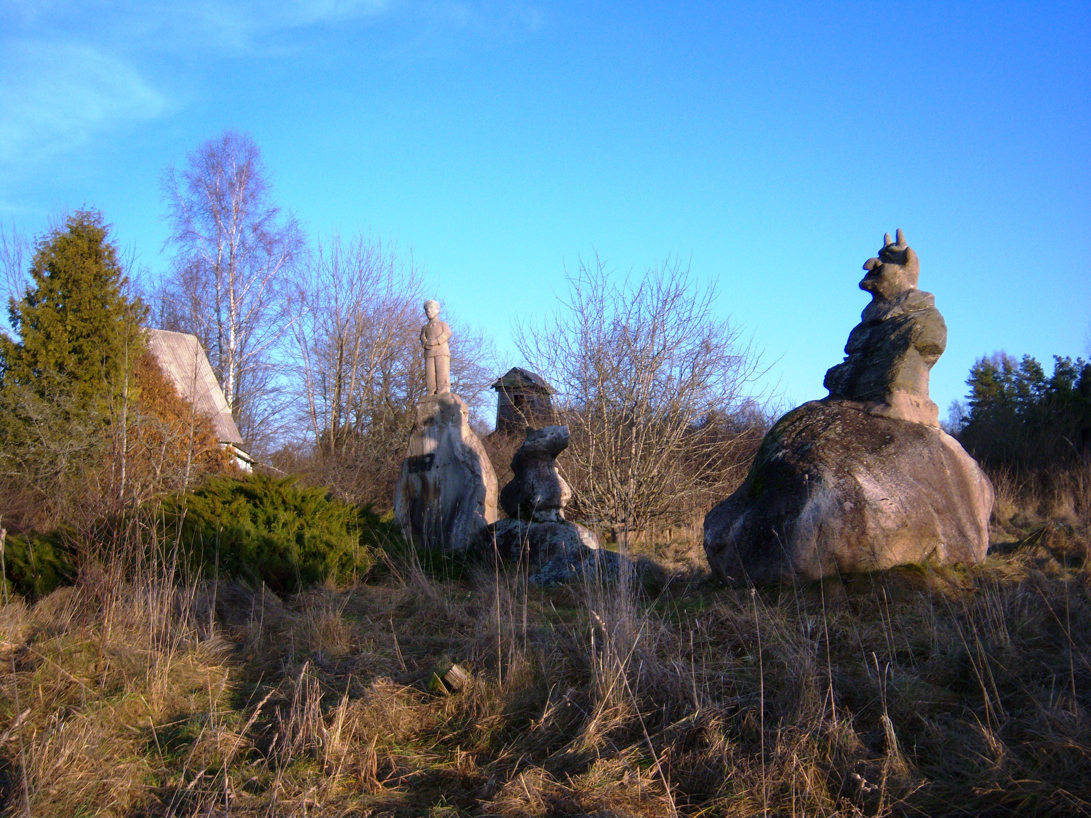 Abandoned place, Vičiai, Kelmė District, Lithuania